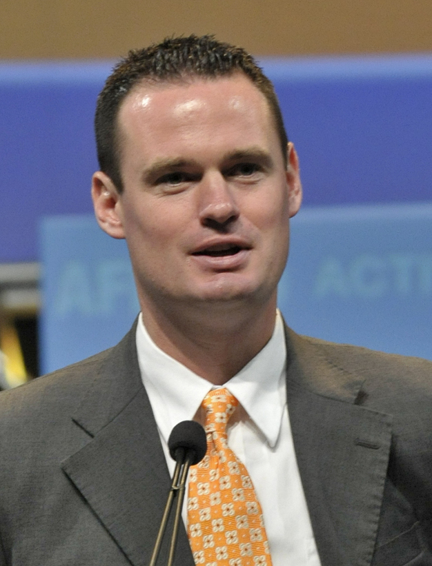 Luke Ravenstahl at AFLCIO 2009 conference